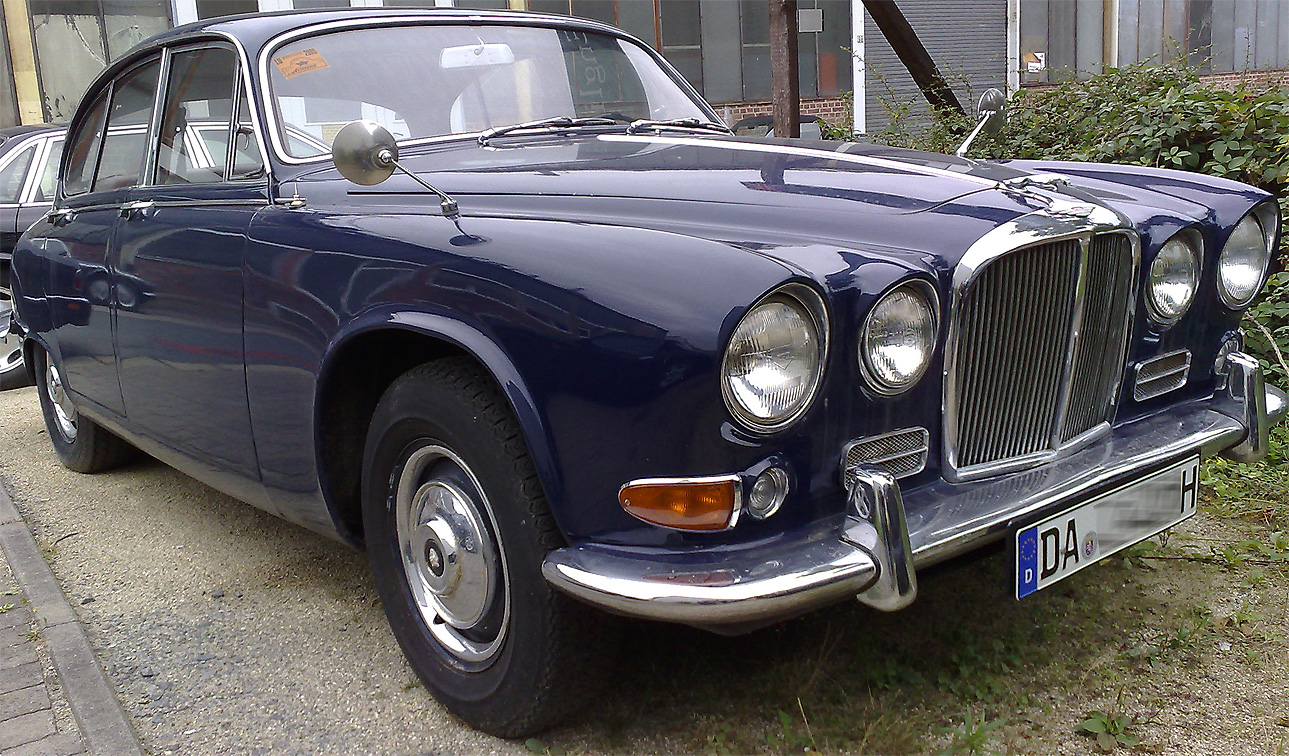 Jaguar 420